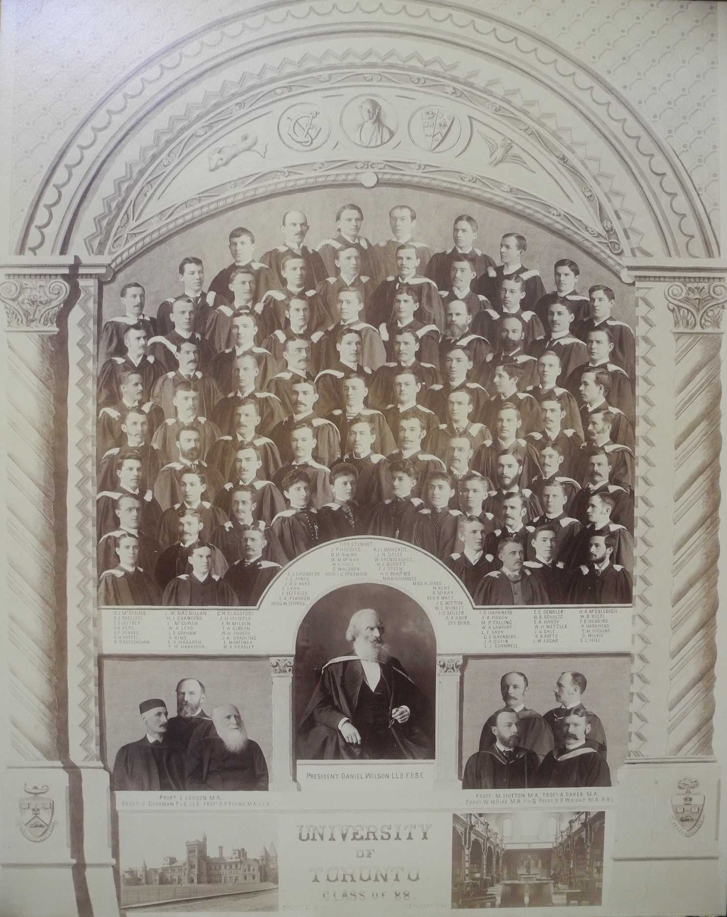 The Class of 1888 of the University of Toronto. Toronto, Ontario, Canada. Item is a composite photograph of University of Toronto students and faculty (all men) from the class of 1888. Depicted are: [students] W.J. McDonald, S.J. Radcliffe, E.C. Jeffrey, C.S. Kerr, G.F. Downes, F.H. Suffel, N.P. Buckingham, J.W. MacMillan, H.J. Crawford, J. McGowan, W.A. Leys, J.D. Graham, S. King, E.S. Hogarth, T.M. Harrison, C.H. Classford, J.H. Hunter, A.W. Milden, T.A. Gibson, W.H. Hodges, J.A. Sparling, E. Mortimer, W.A. Bradley, S.J. Saunders, J.E. Jones, J.R.S. Boyd, E. Lyon, J. Jeffries, E.A. Pearson, Miss M. Lennox, T.P.B. Stewart, J.P. Hubbard, B.M. Aikins, W.M. McKay, W.F. Hull, C. Waldron, Miss I.G. Eastwood, A.J.L. Mackenzie, J.N. Dales, W. Prendergast, W.E. Burritt, F.J. Steen, H.C. Boultbee, Miss H. Charles, Miss A. Jones, N. Kent, R. McKay, Rev. R. Watt, J.G. Witton, W.L. Wickett, J.O. Miller, A.A. Knox, Gfy Boyd, J.C. Harkness, F.A. Hough, M.P. Talling, W.A. Lamport, L.E. Skey, C.E. Saunders, J.A. Giffin, L.J. Cornwell, E.C. Senkler, S.D. Schultz, E.A. Hardy, W.H. Metzler, J.S. Gale, R.B. Potts, J.W. Edgar, H.A. McCullough, W.B. Nicol, F.B. Hodgins, R. Harkness, T.M. Higgins, G. Wilkie, E.L. Hill; [faculty] Profr J. Loudon, M.A.; Profr J. Chapman, PhD, LL.D.; Profr C.P. Young, M.A., LL.D.;Profr M. Hutton, M.A.; Profr A. Baker, M.A.; Profr W.H. Pike, M.A., Ph.D.; Profr R.R. Wright, M.A., B.Sc. Also depicted is Daniel Wilson, the first president of the federated University of Toronto.